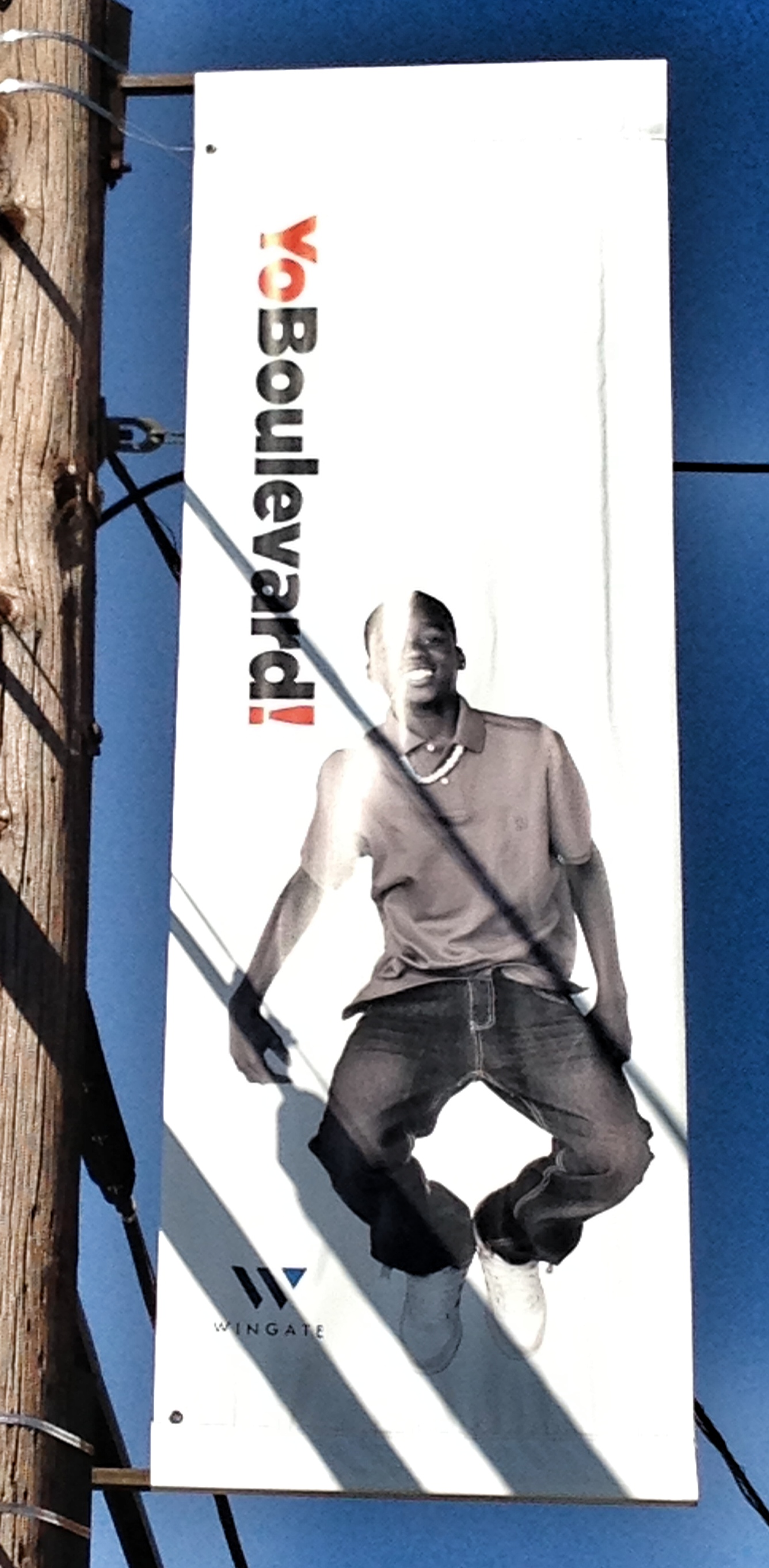 Yo! Boulevard campaign banner